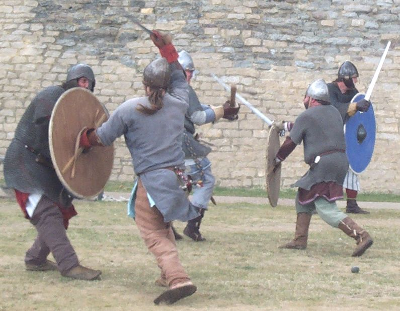 A reenactment at the 2010 Bedford River Festival on the open space in Front of the Castle Mound. A skirmish between Vikings and Saxons.